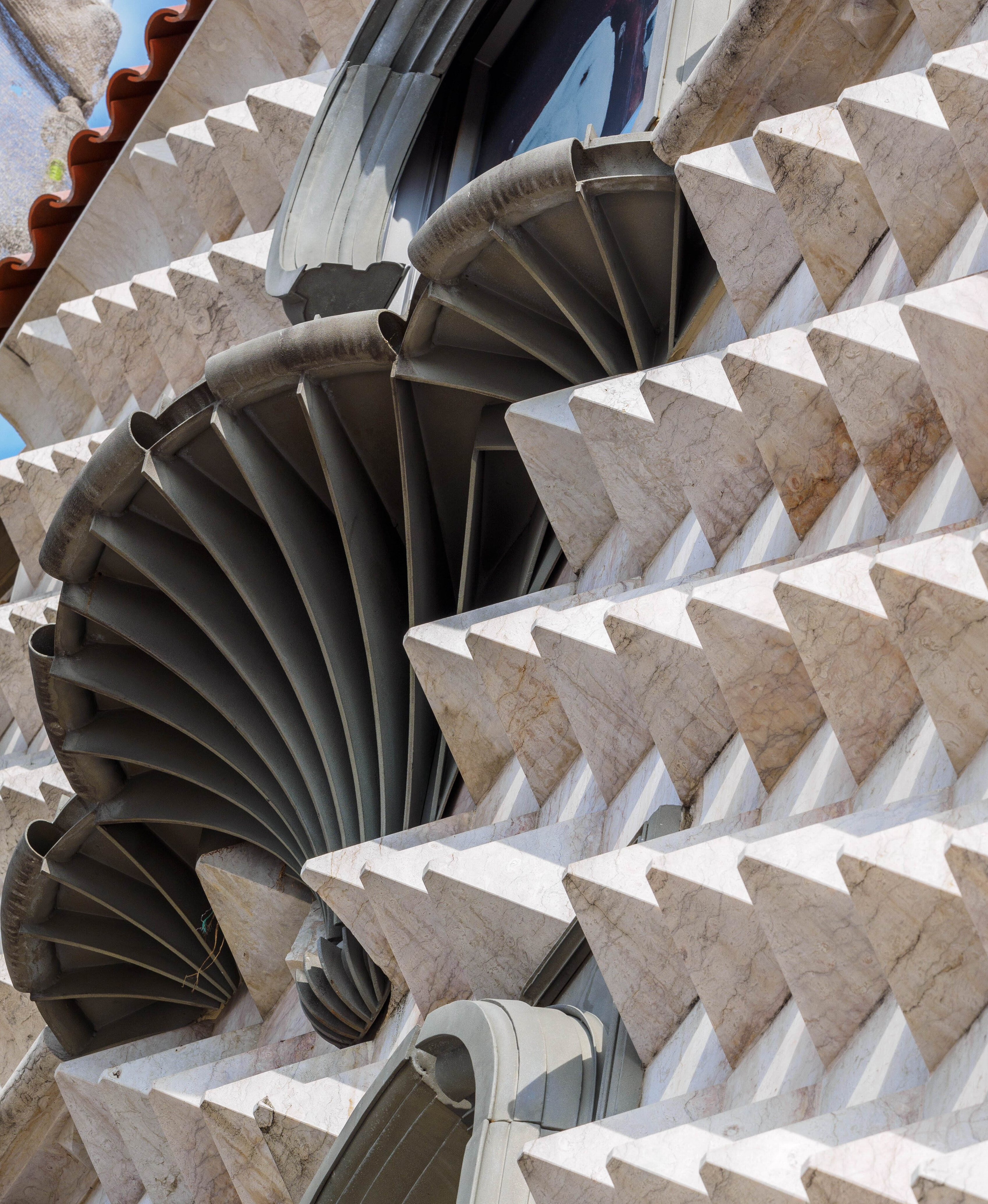 Andreas Manessinger, , Creative Commons BY-SA